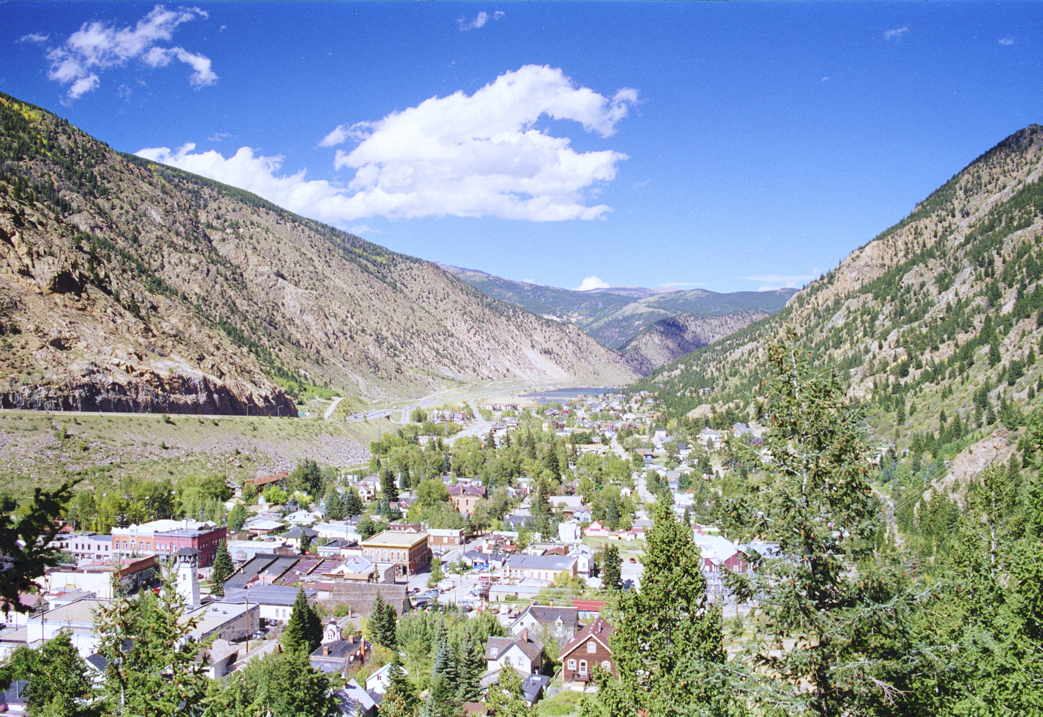 Georgetewn, CO